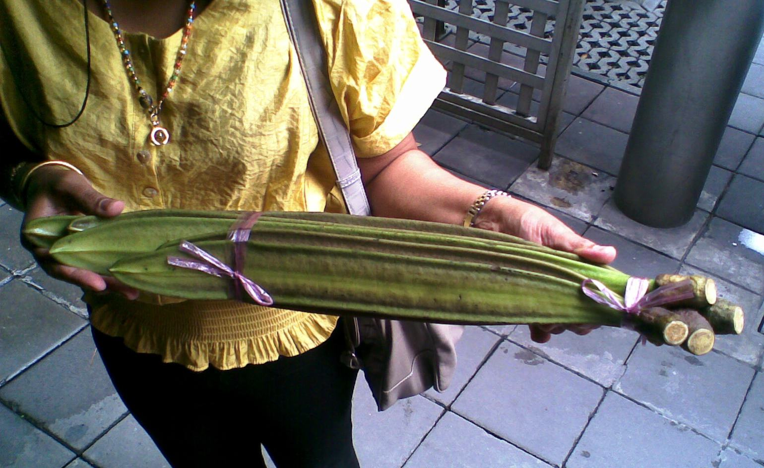 Oroxylum indicum pods sold at a market in downtown Bangkok